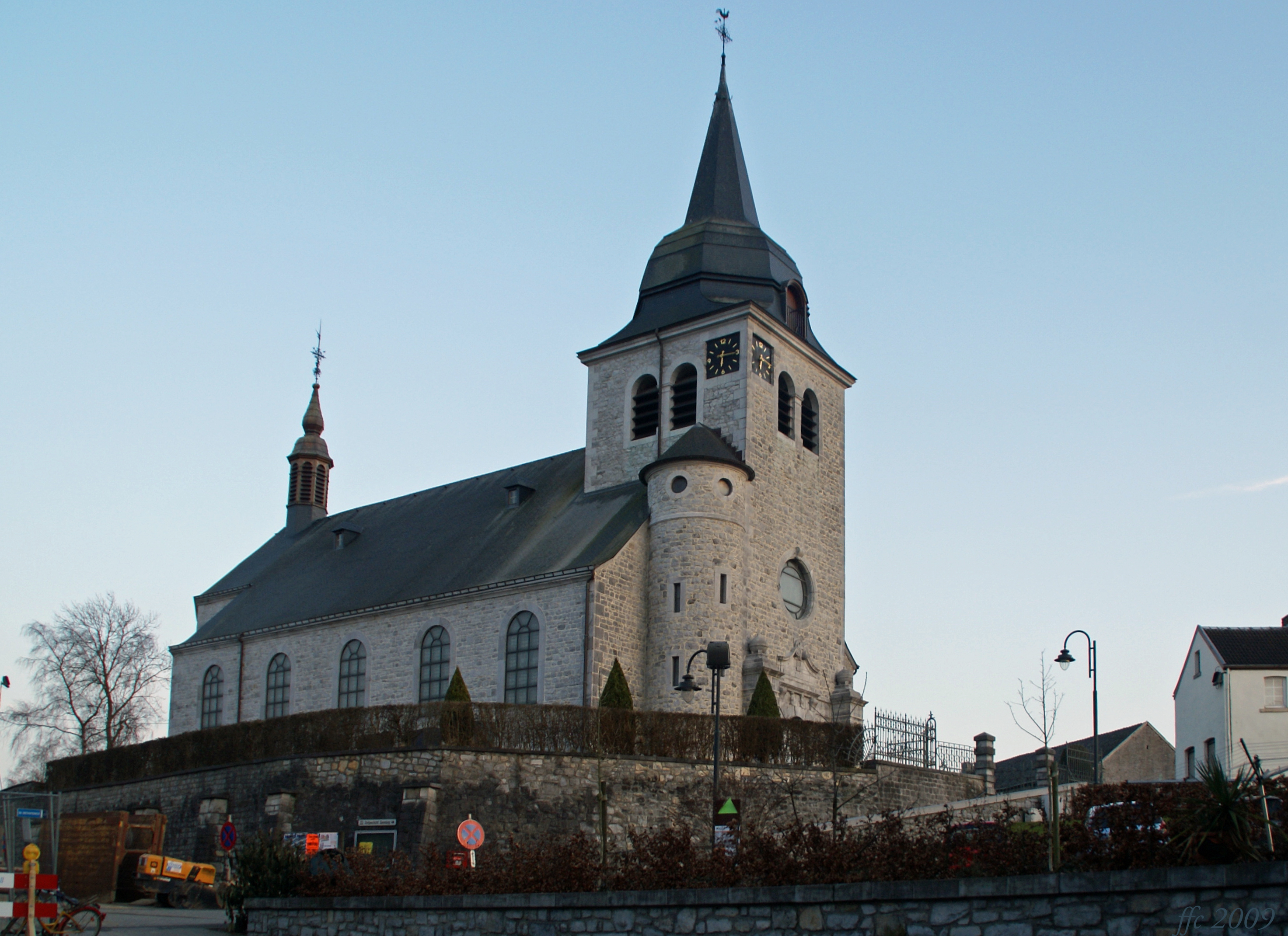 Lontzen (Belgium): Saint Hubert's Church